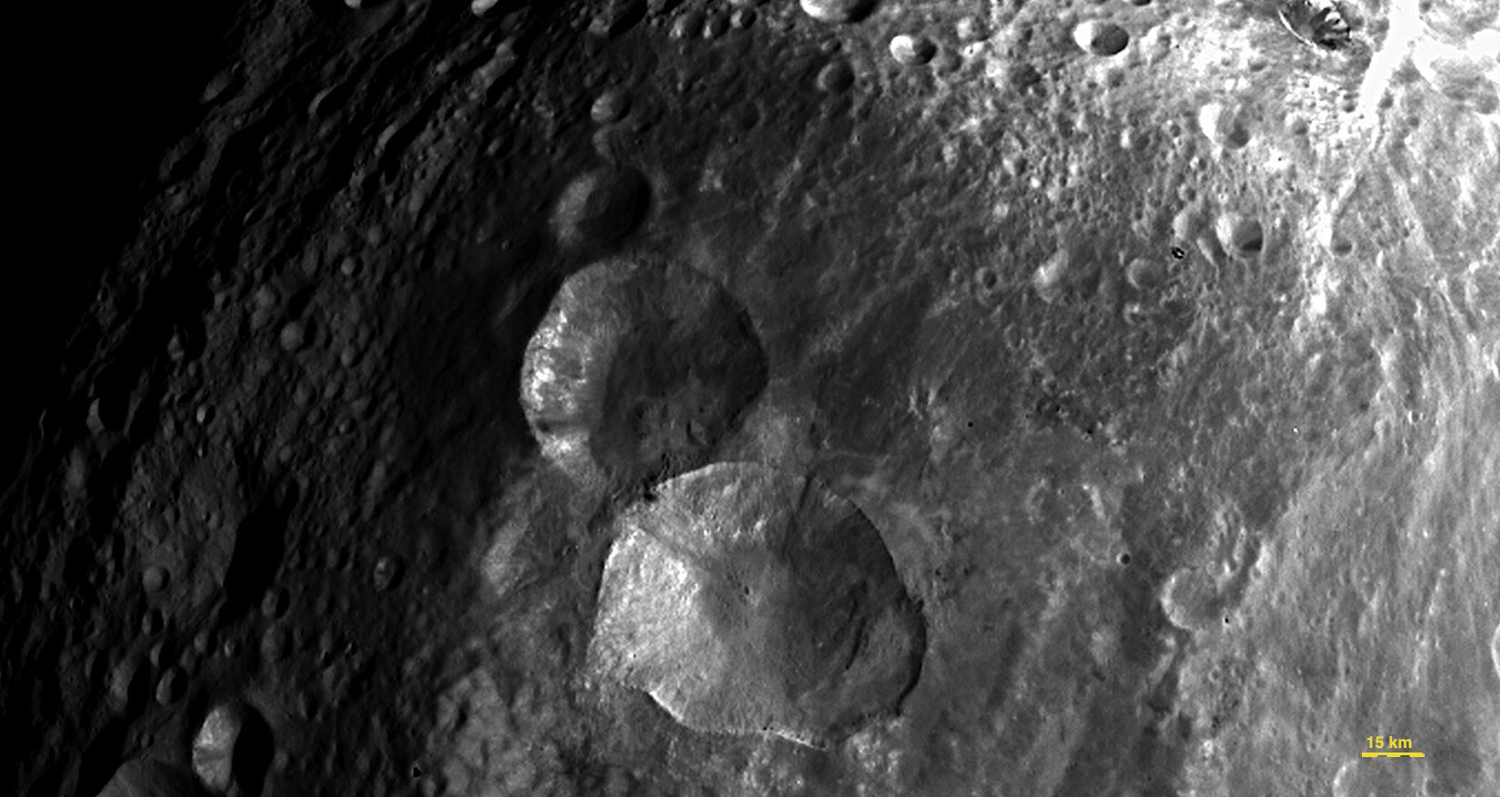 This image, obtained by the framing camera on NASA's Dawn spacecraft, shows a set of three craters, informally nicknamed "Snowman" by the camera's team members. It is located in the northern hemisphere of Vesta. The image was taken on July 24, 2011, from a distance of about 5,200 kilometers (3,200 miles).